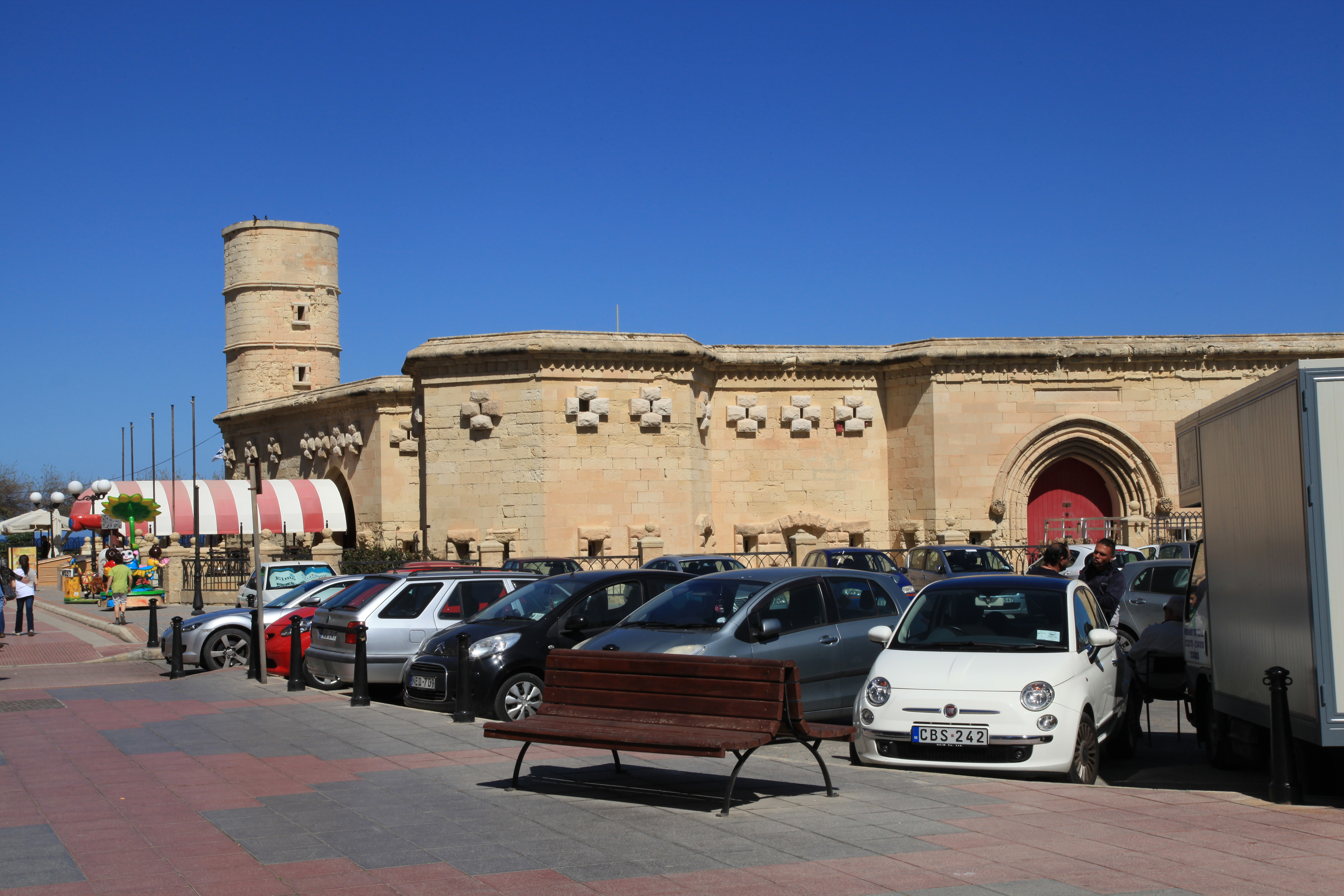 Il Fortizza at Triq it-Torri in Sliema, Malta